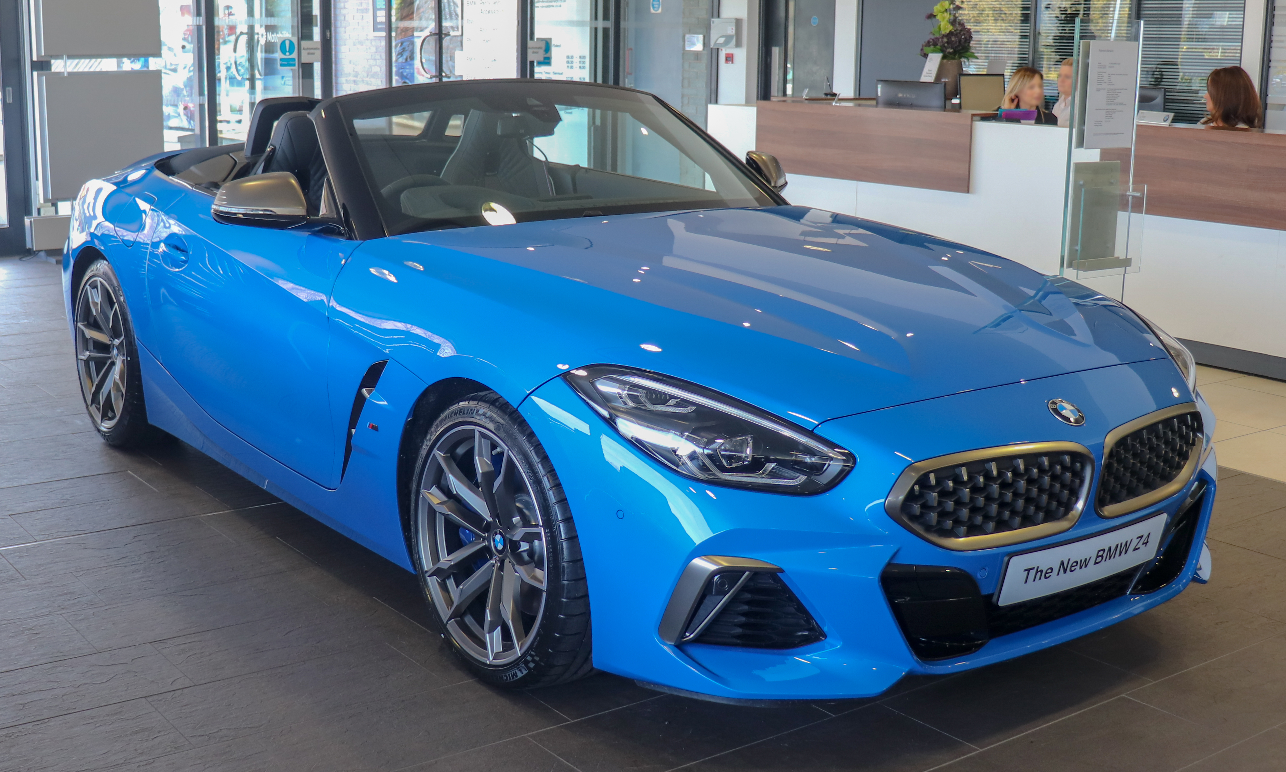 2019 BMW Z4 M40i Front Taken in Leamington Spa